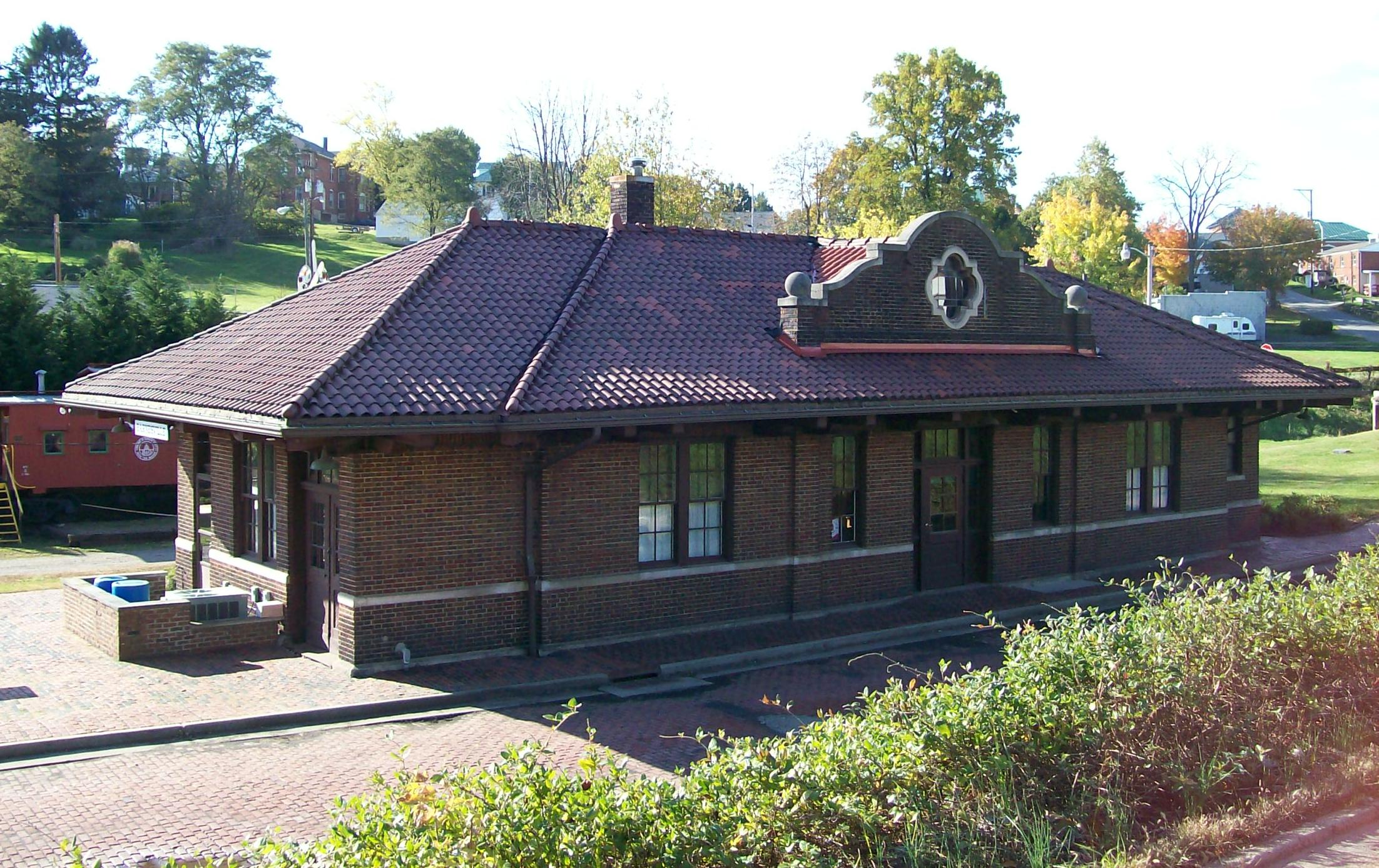 The Barnesville B&O Railroad Depot in Barnesville, Ohio. The depot is photographed from Mulberry Street looking south to the Depot. The property was added to the NRHP in 1985. Taken August 2009.